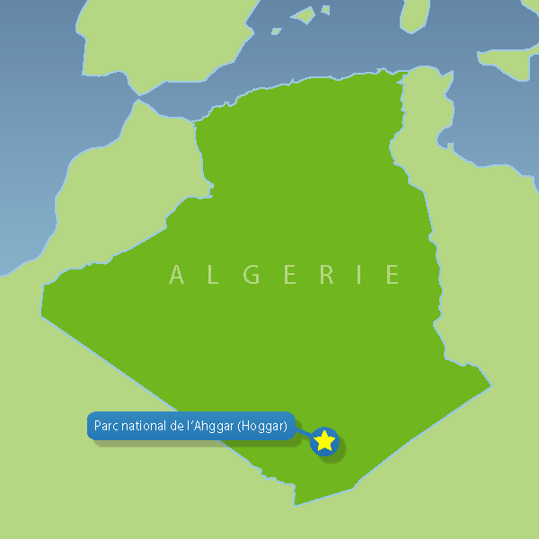 Map of National parks of Algeria, Ahggar (Hoggar) National park. Author= M.GASMI.